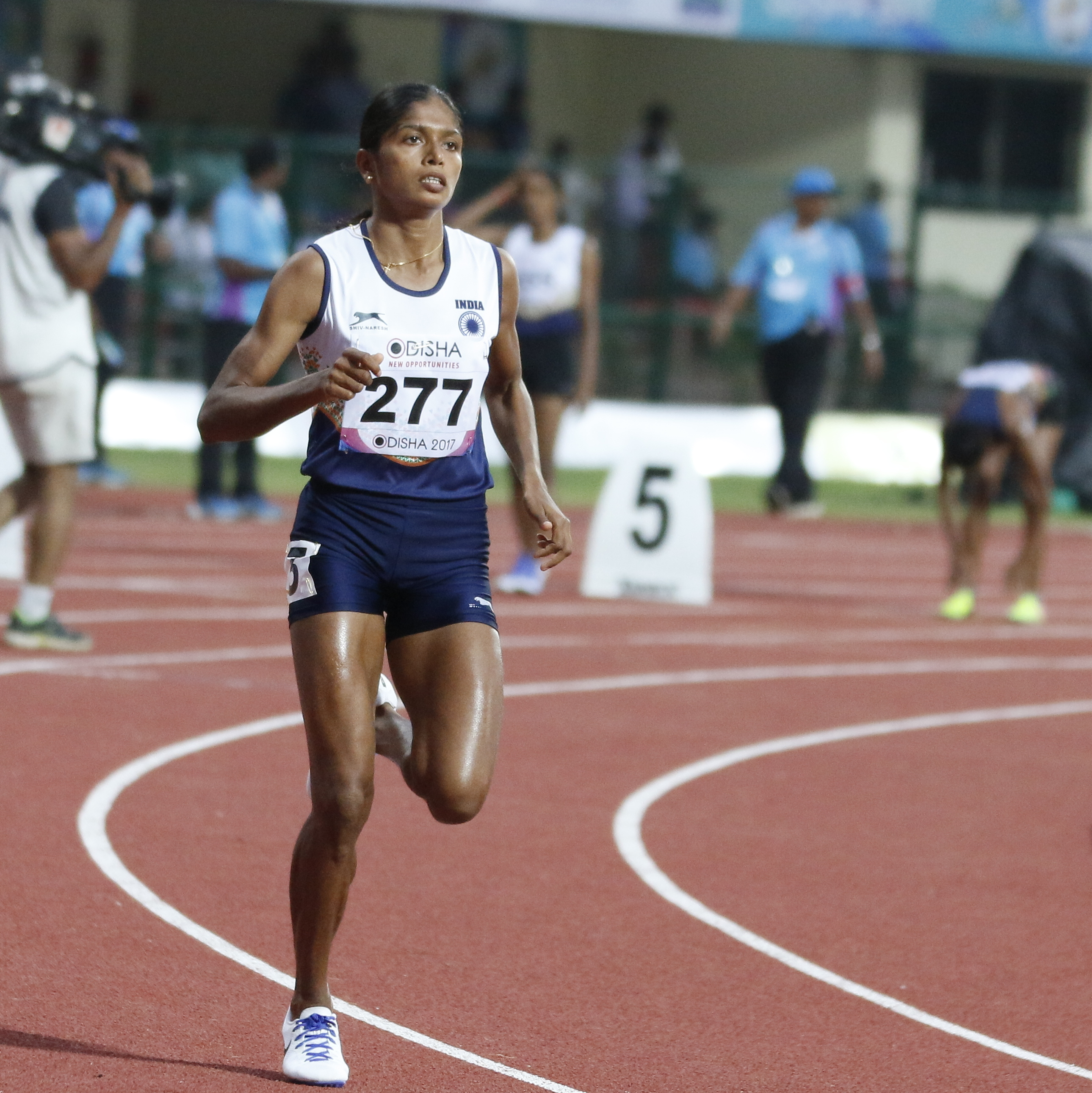 2017 Asian Athletics Championships at the Kalinga Stadium in Bhubaneswar, India